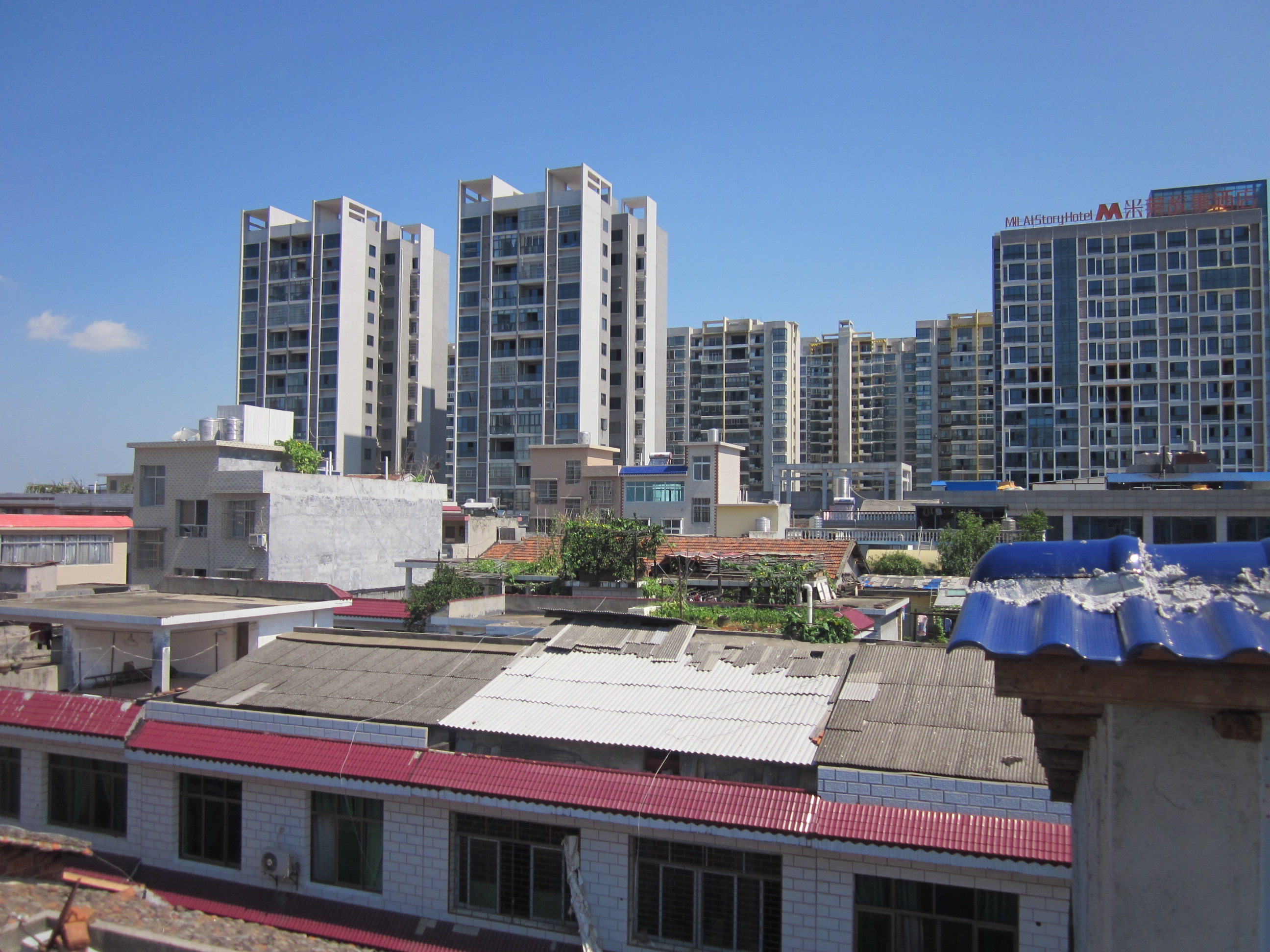 Buildings,Ning Xiang county